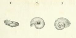 Aegopinella nitens (Michaud, 1831), Oxychilidae, Gastropoda, Mollusca, Syntypes, figurred by Michaud (1831: pl.15, figs.1-3)